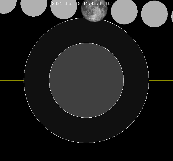 June 2031 lunar eclipse chart of moon's total lunar eclipse path through the earth's shadow. thumb